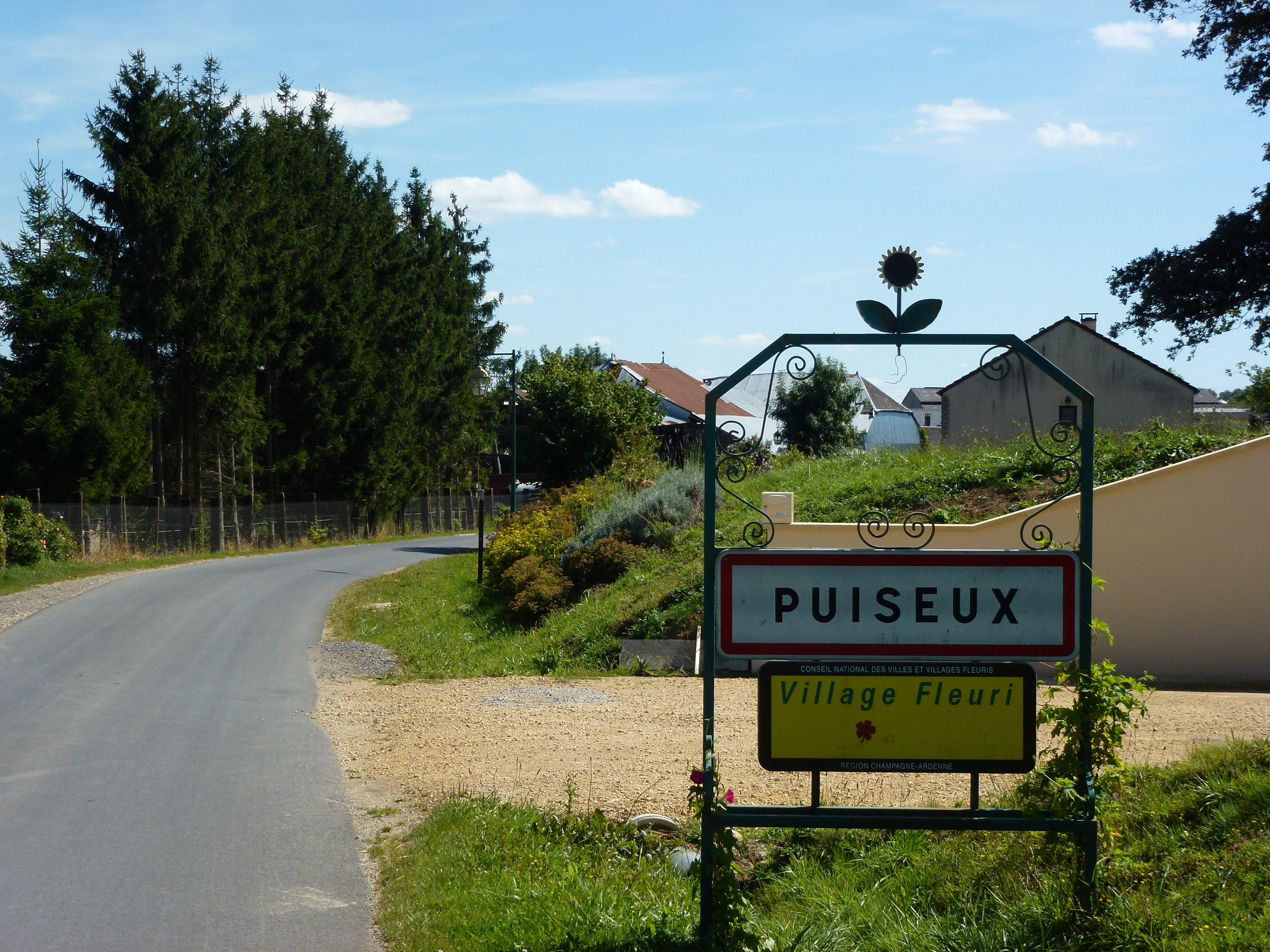 Puiseux (Ardennes) city limit sign